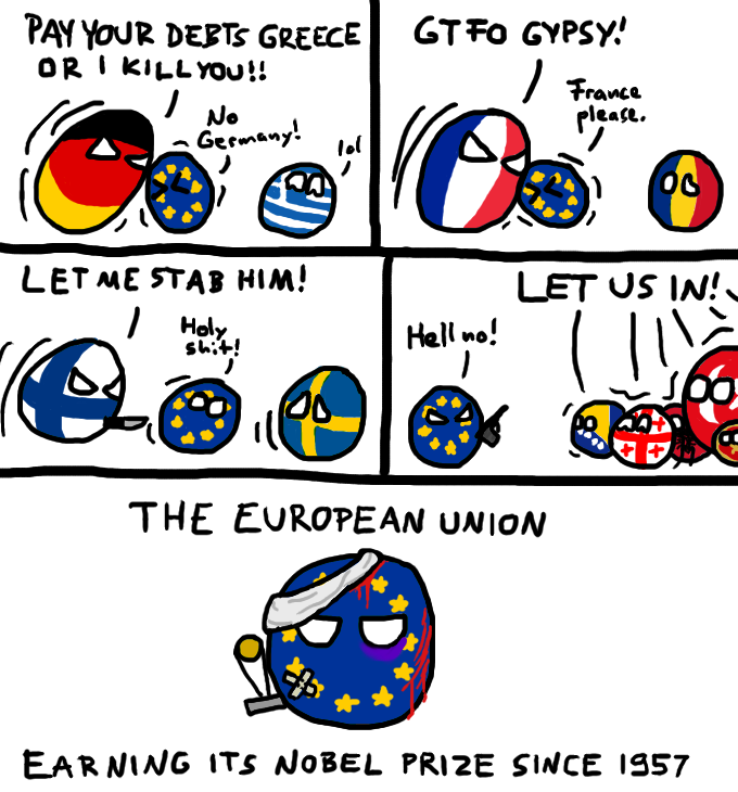 Polandball comic on the news that the European Union collects its Nobel Peace Prize in Oslo (news link)